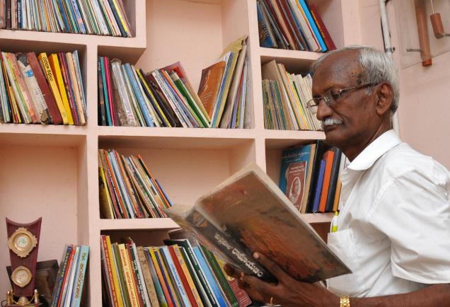 Chenniah garu at his office